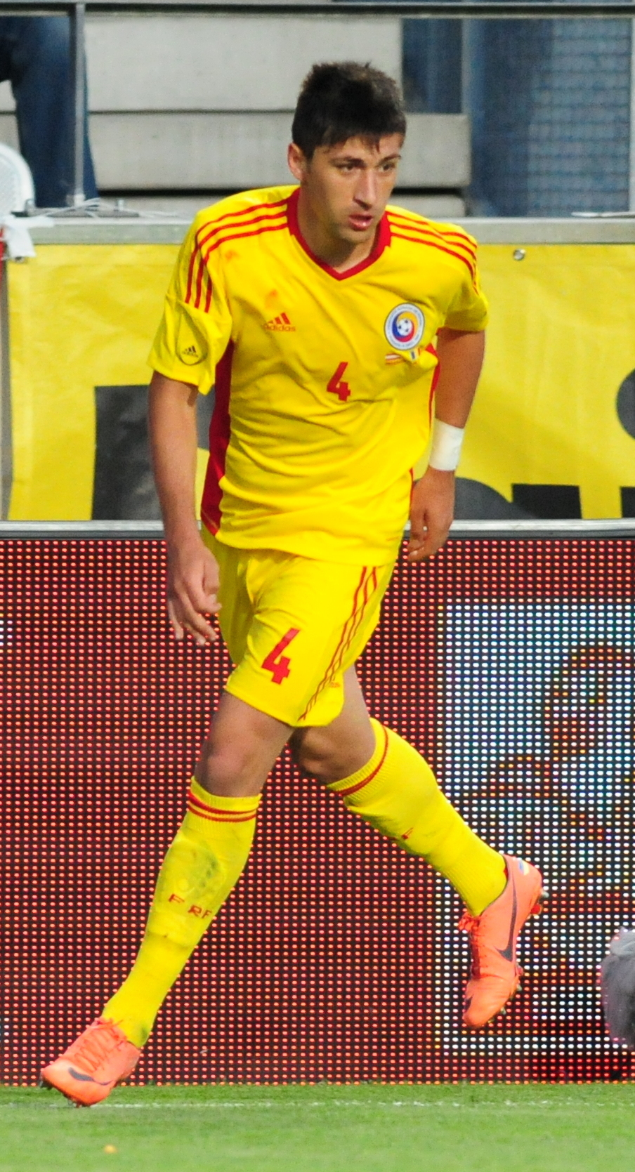 Exhibition game Austria vs. Romania at 5st. June 2012